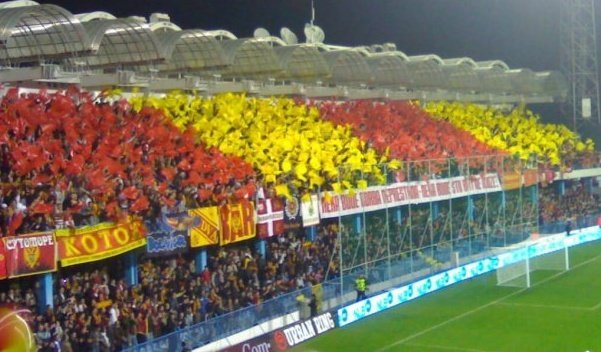 Picture of Montenegrin fans at match between Montenegro and Italy in Podgorica